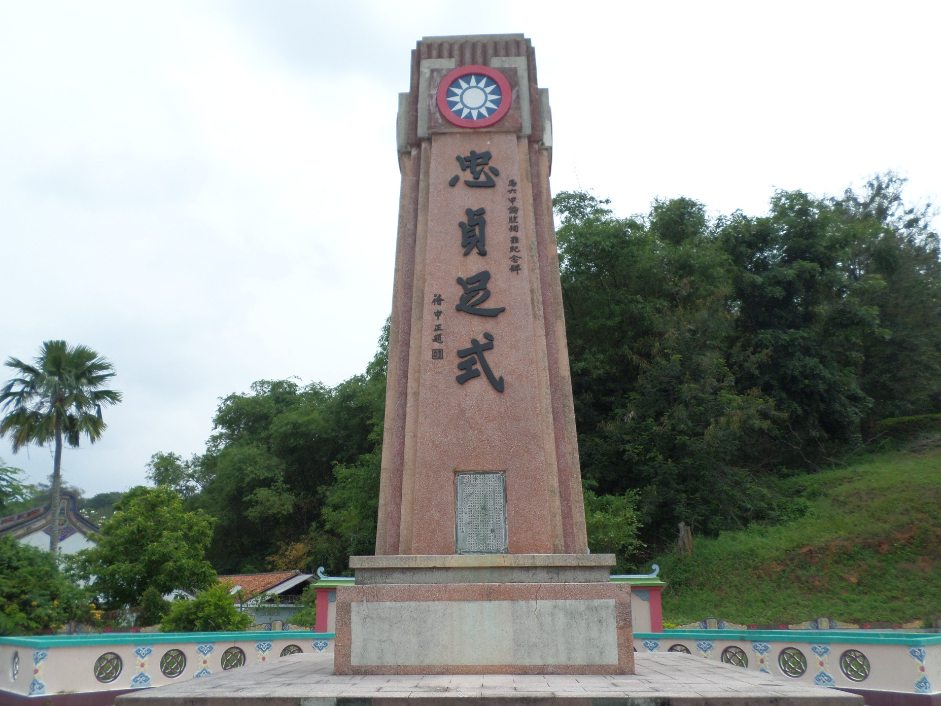 Melaka Warrior Monument for the Chinese Victims of Anti-Japanese Occupation, Melaka City, Central Melaka, Melaka, Malaysia